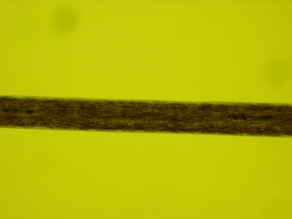 Human Hair 10X Magnification Taken at Strathclyde University Forensic Science Department Taken By Edward Dowlman